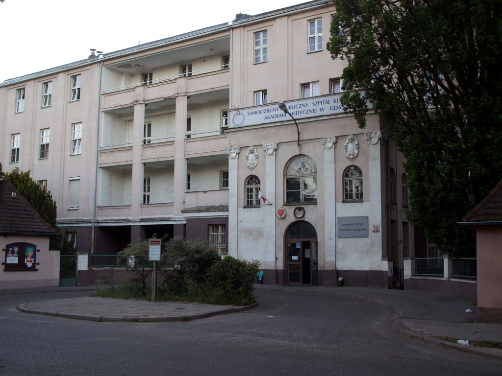 "Szpital Kliniczna", hospital in Gdańsk